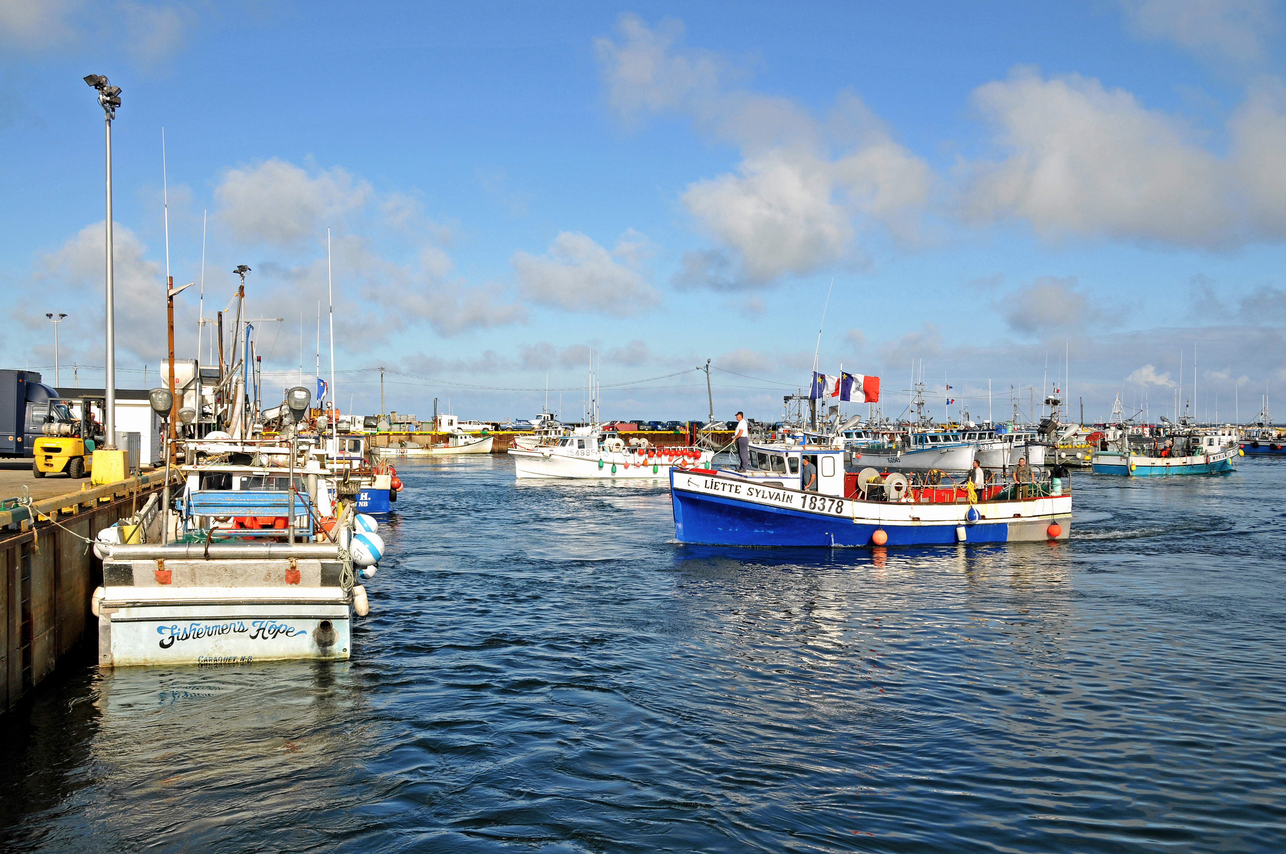 Port of Savoie Landing.